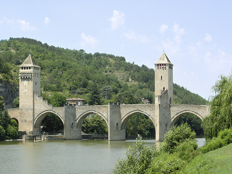 The medieval Valentré bridge over the Lot river at the city of Cahors, France.